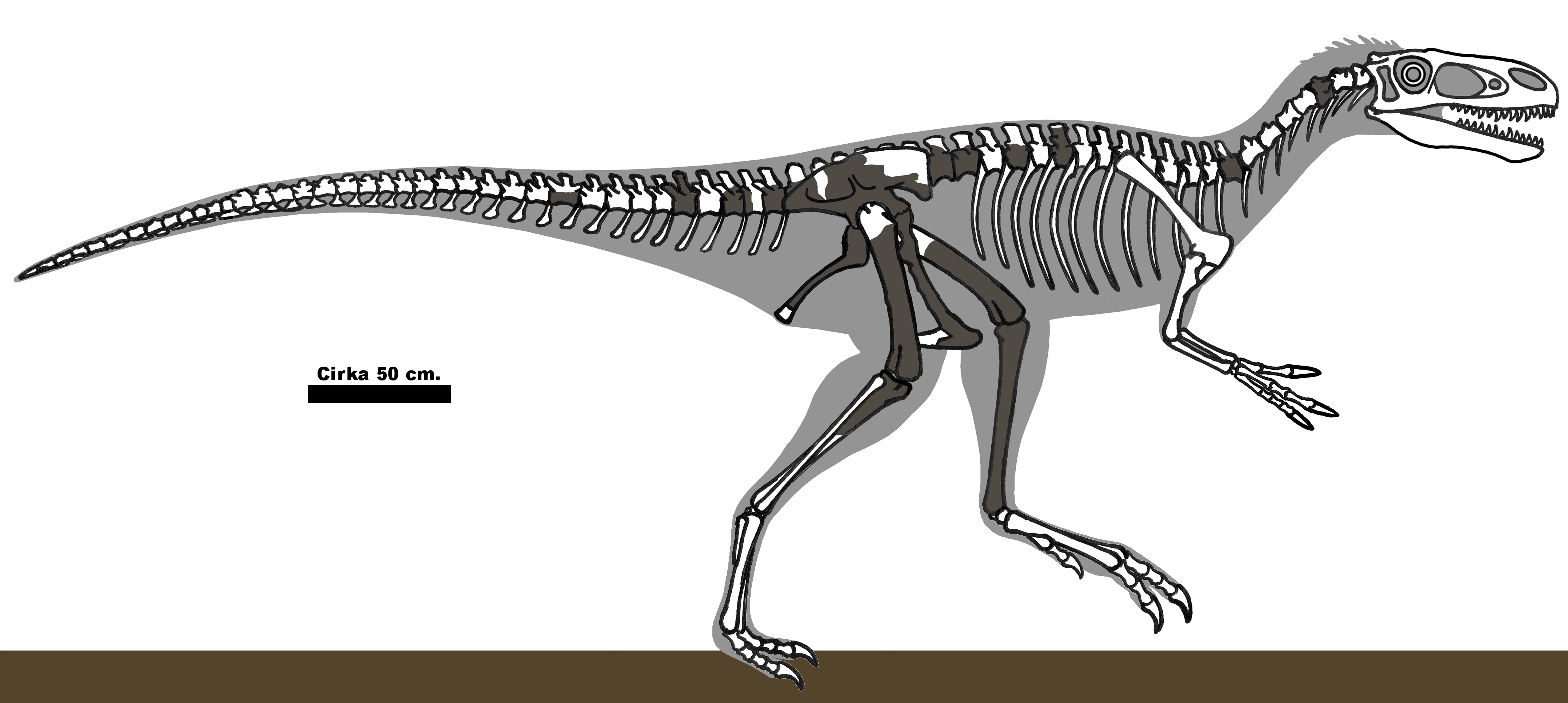 Diagram showing the bones of the brittish dinosaur species Juratyrant langhami (Dinosauria, Saurichia, Theropoda, Coelurosauria, Tyrannosauroidea), originally described by Benson as Stokesosaurus langhami,[1] but now identified as its own genus.[2] References ↑ Benson R.B.J. (2008), "New Information on Stokesosaurus, A Tyrannosauroid (Dinosauria: Theropoda) from North America and the United Kingdom", Journal of Vertebrate Paleontology 28(3): p. 732-750. ↑ Brusatte, Stephen L. & Benson, Roger B. J. (2012), "The systematics of Late Jurassic tyrannosauroids (Dinosauria: Theropoda) from Europe and North America", Acta Palaeontologica Polonica, 17-2-2012.